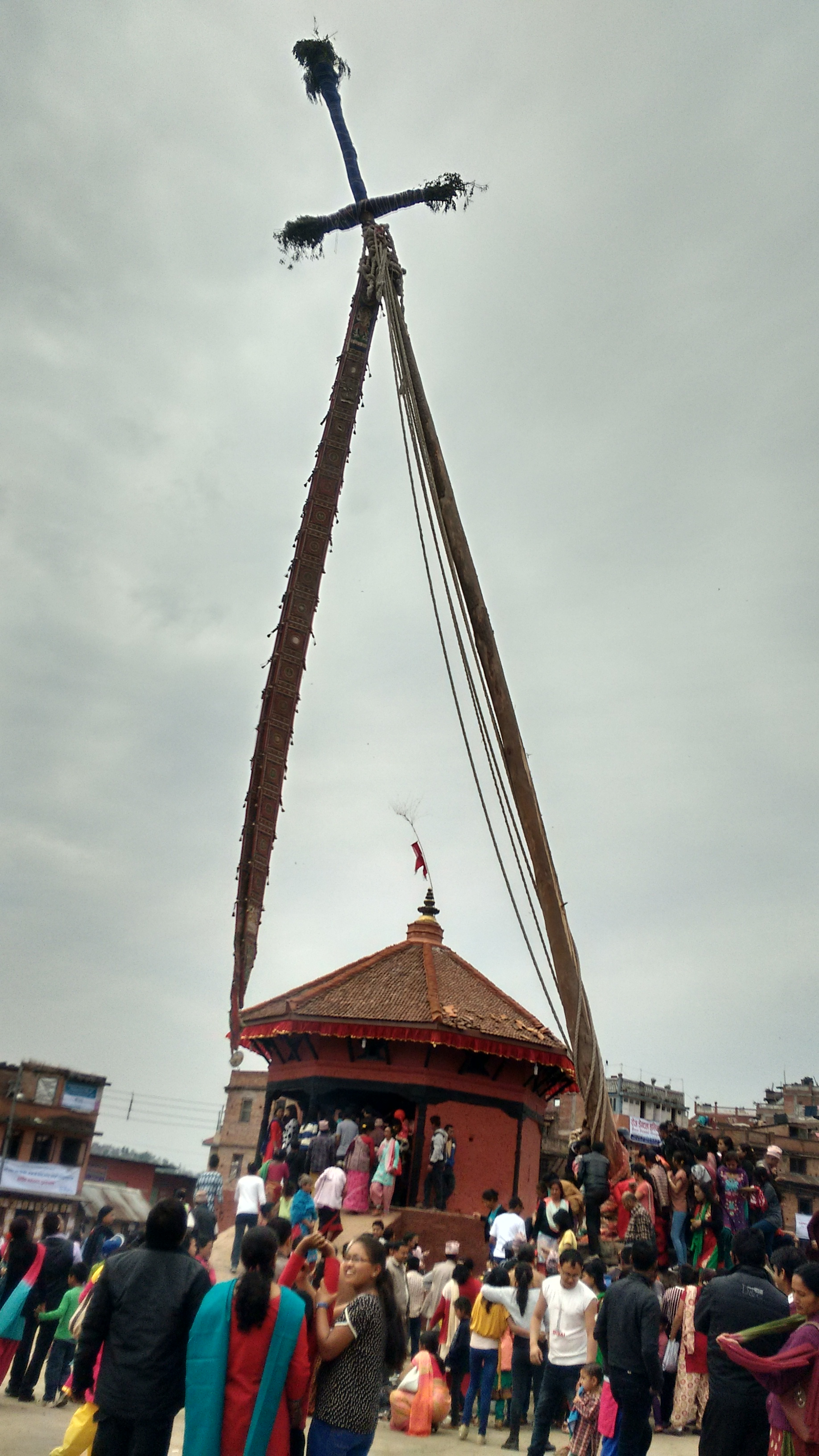 Lingo erected in Bisket Jatra 2015